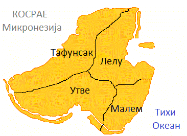 Map of the municipalities of Kosrae, Micronesia in Macedonian.